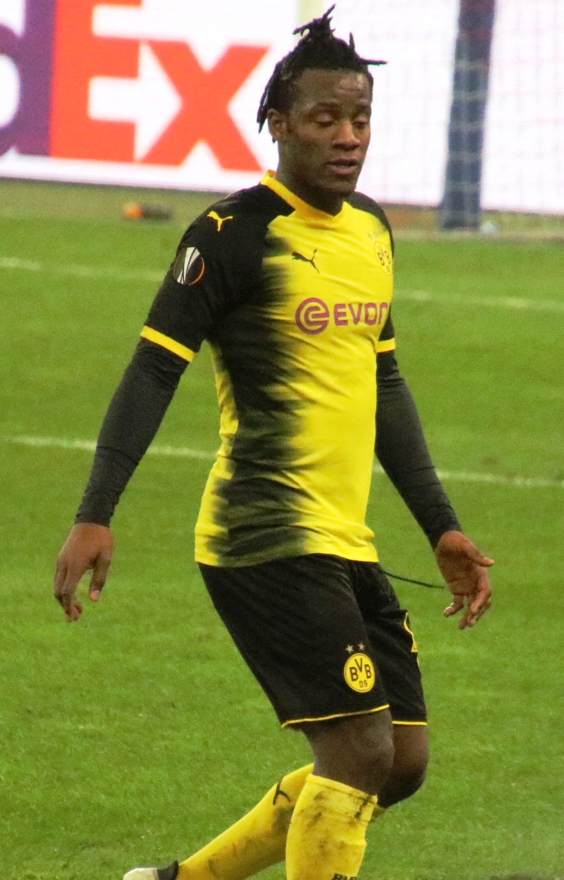 UEFA Euro League Achtelfinale Rückspiel